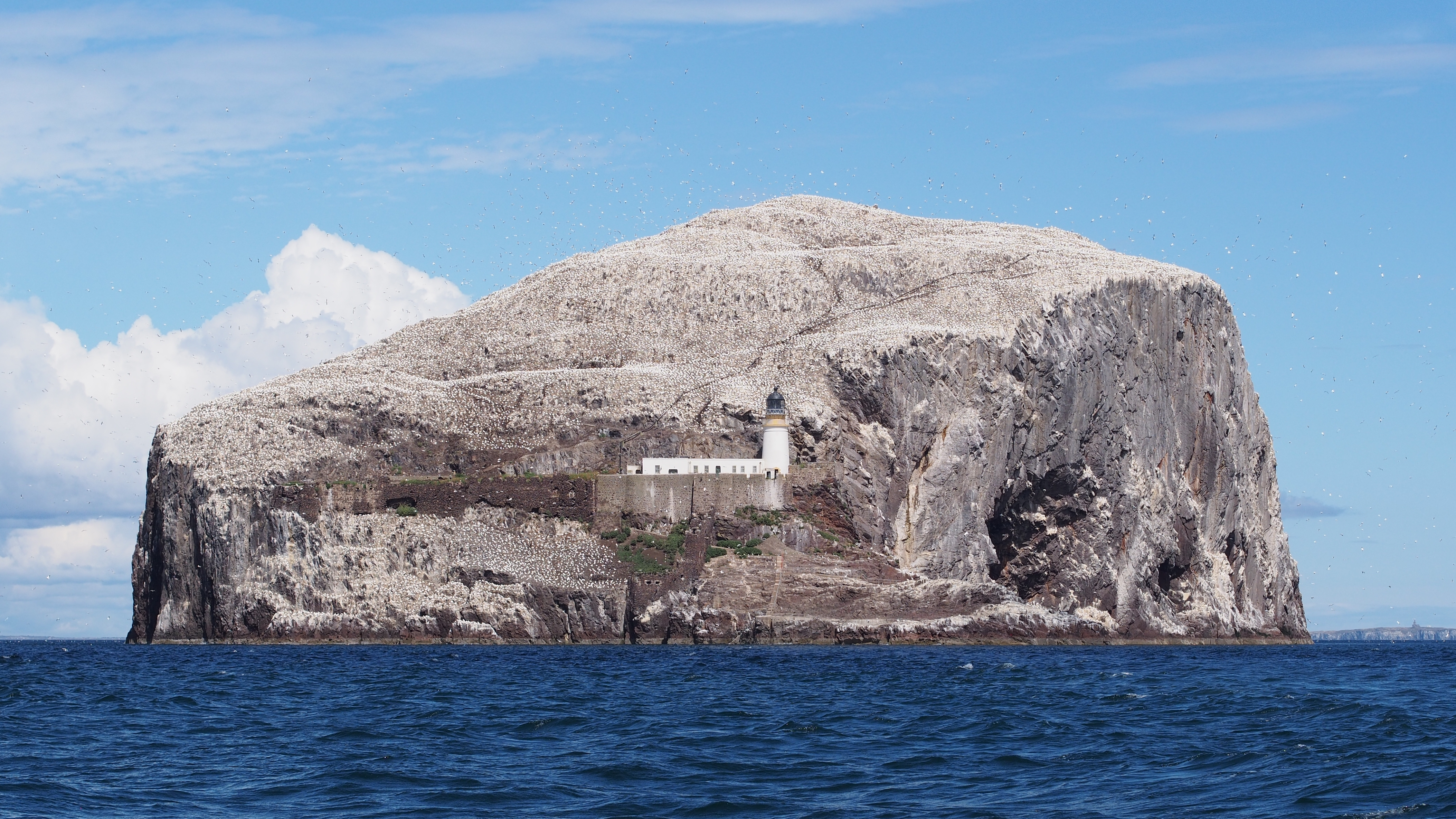 Bass Rock, East Lothian, Scotland. The largest single rock gannetry in the world.